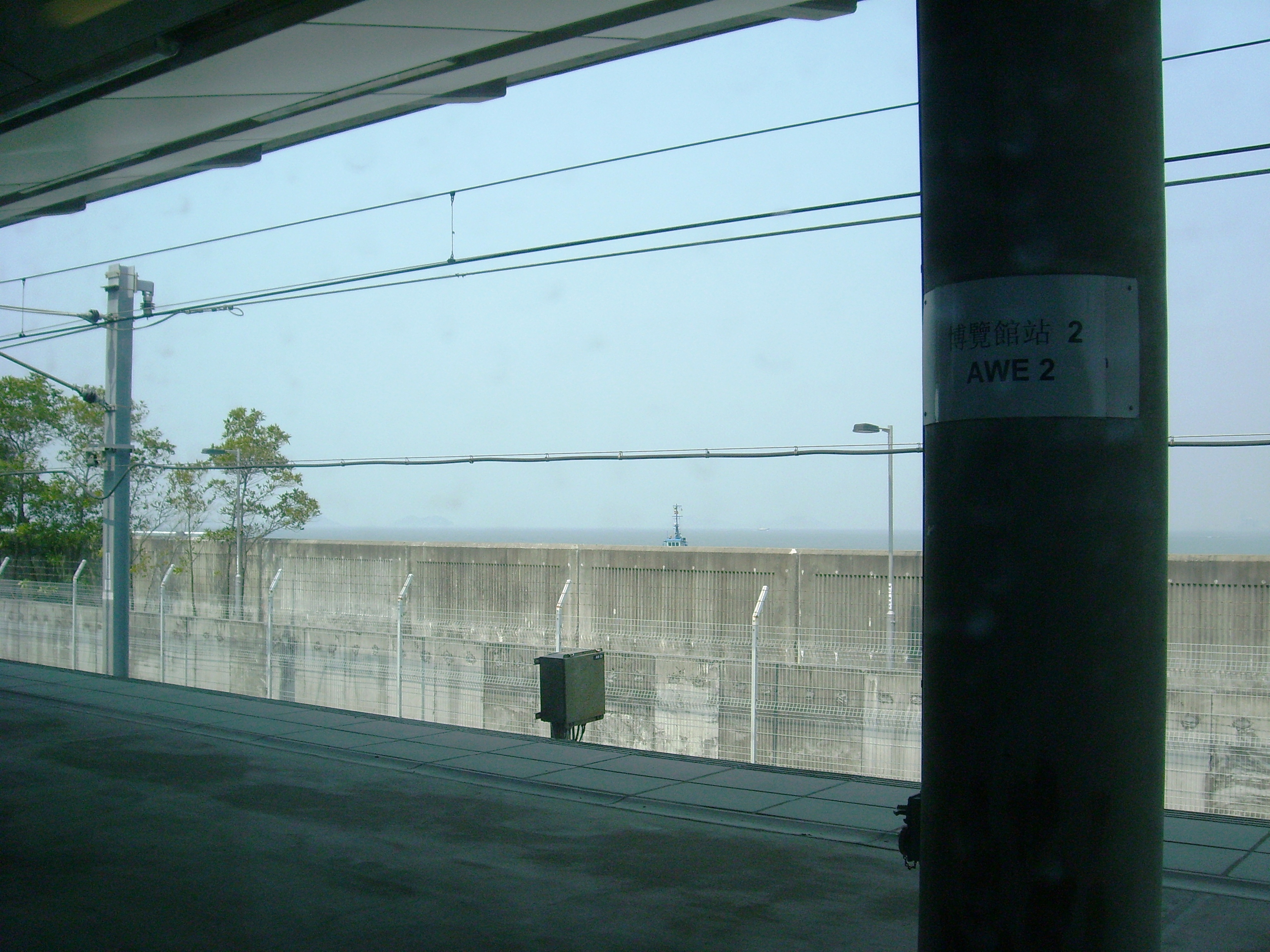 MTR AsiaWorld-Expo Station Platform 2